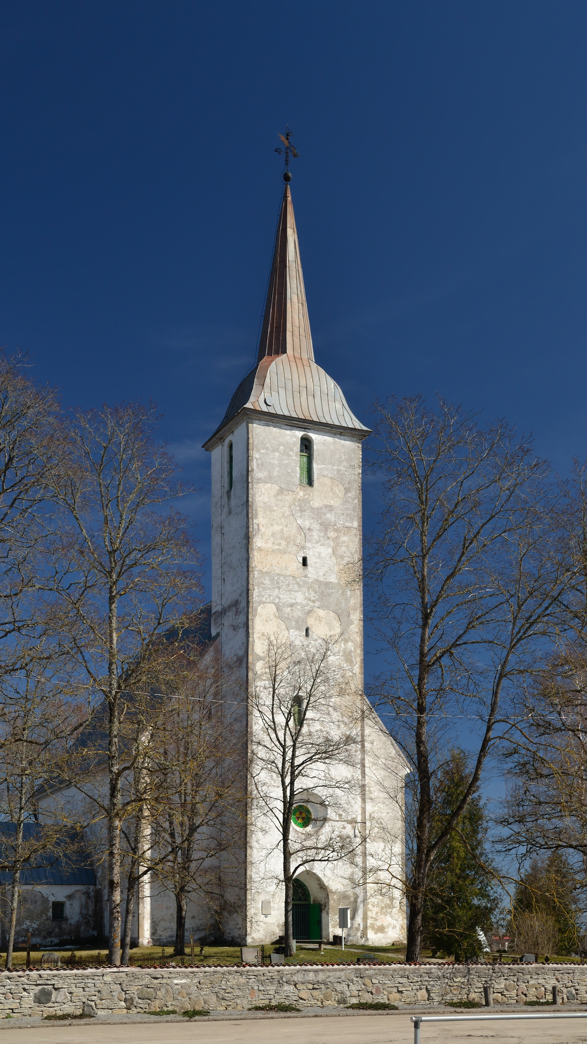 Koeru church